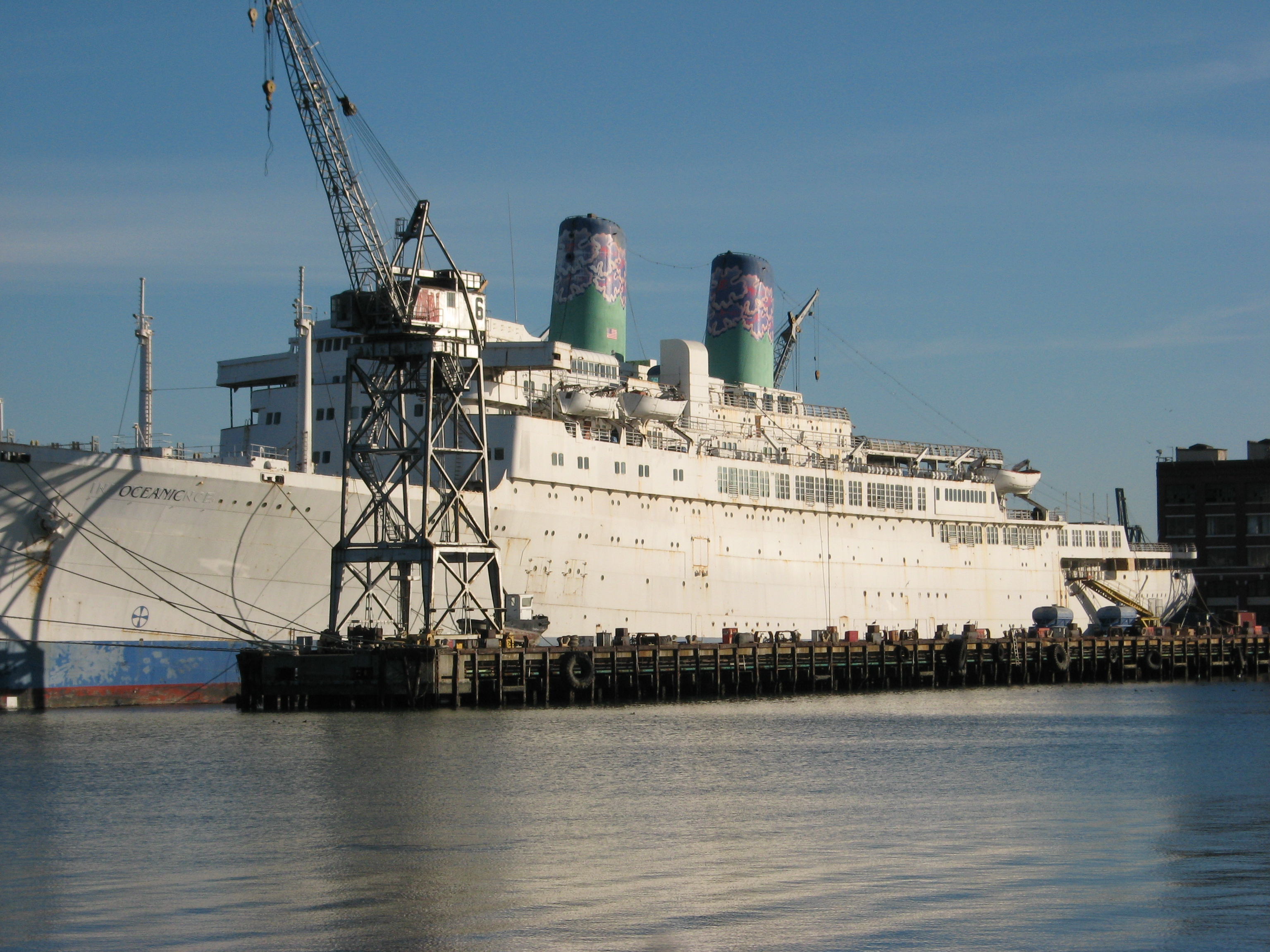 The SS Oceanic at Pier 70. IMO number: 5160180